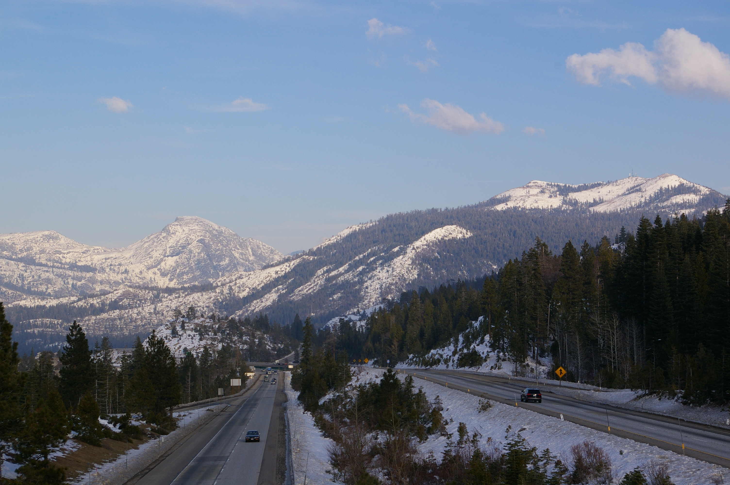 Interstate 80 near the junction with California State Route 20 on the western approach to Donner Summit